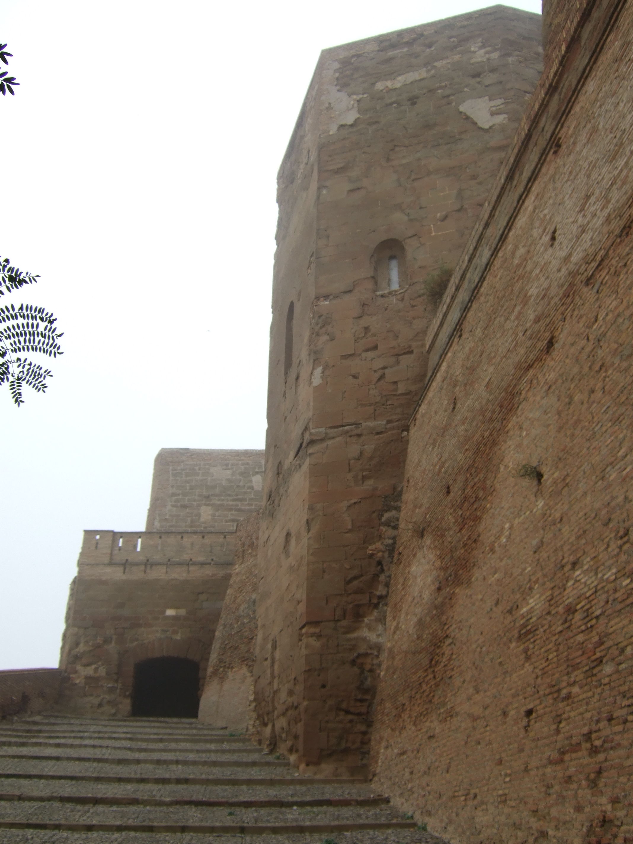 Castle of Monzon (Aragon, Spain)